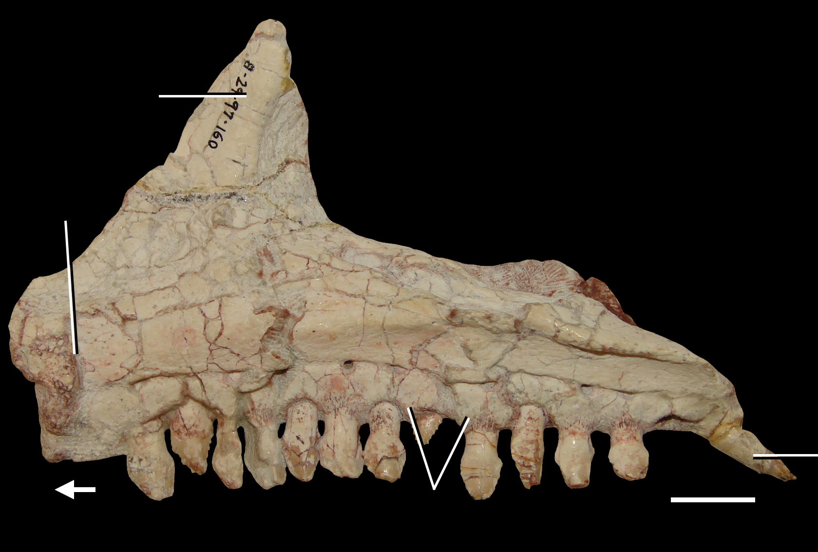 Right maxilla of Azendohsaurus madagaskarensis in medial view showing the posterior longitudinal keel and implanted teeth, specimen UA 8-29-97-160. Scale bar equals 2cm, arrow indicates anterior direction. Modified from Ezcurra (2016).